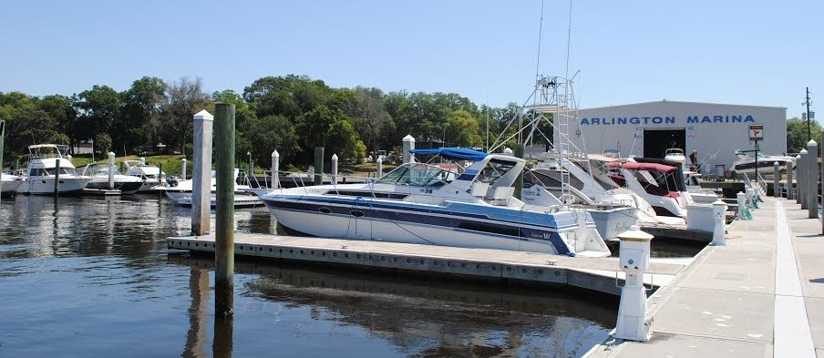 Photo of Arlington Marina by me